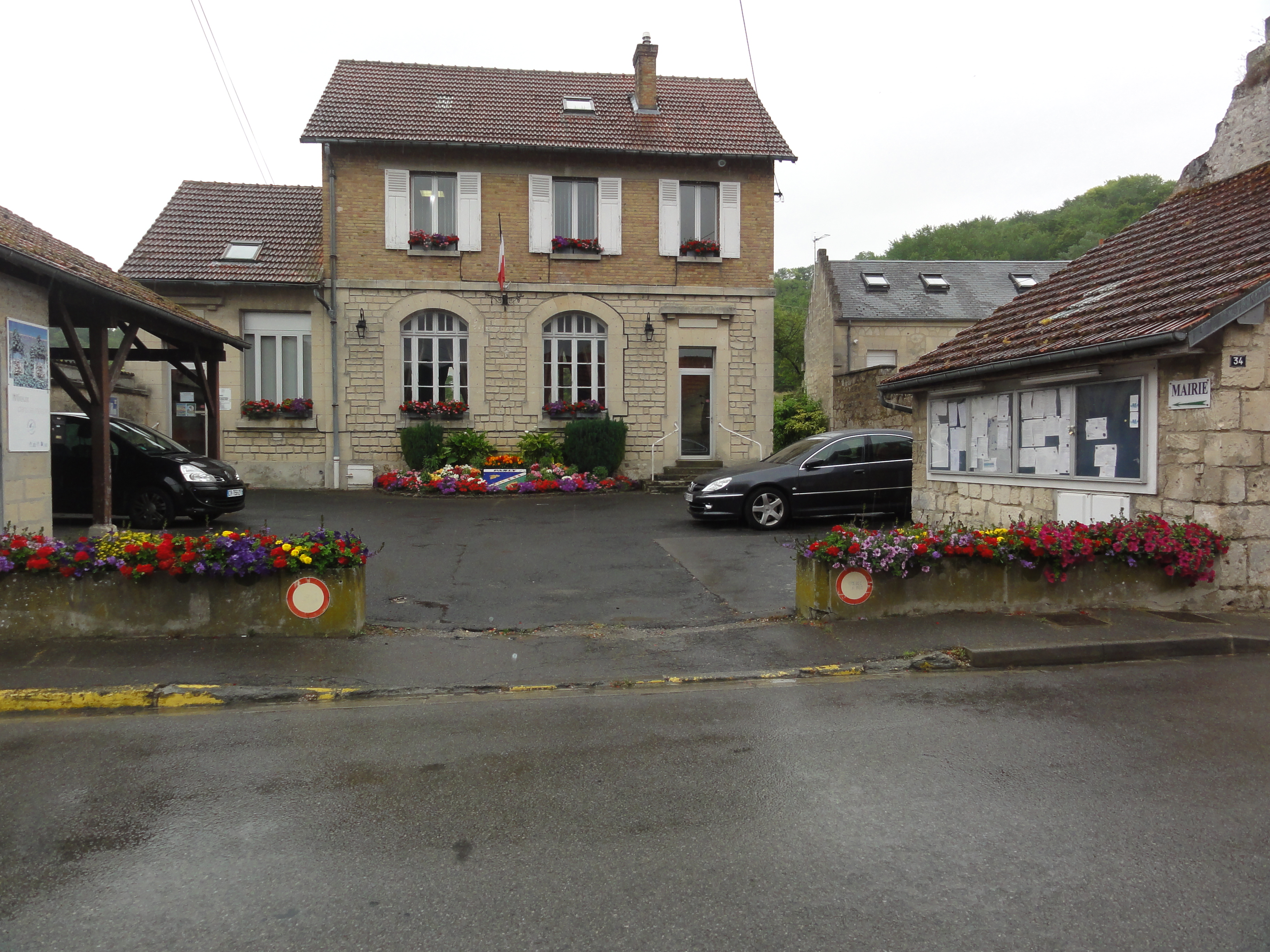 Pasly (Aisne) mairie